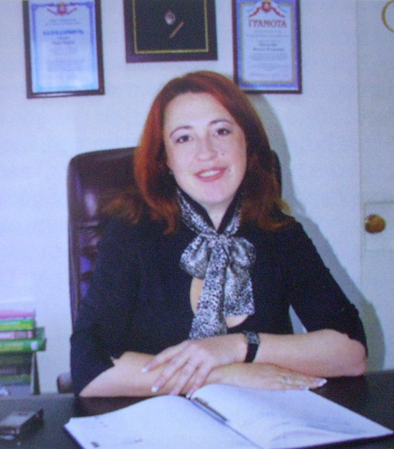 Novyi Svit winery director Pavlenko Janina Petrivna.